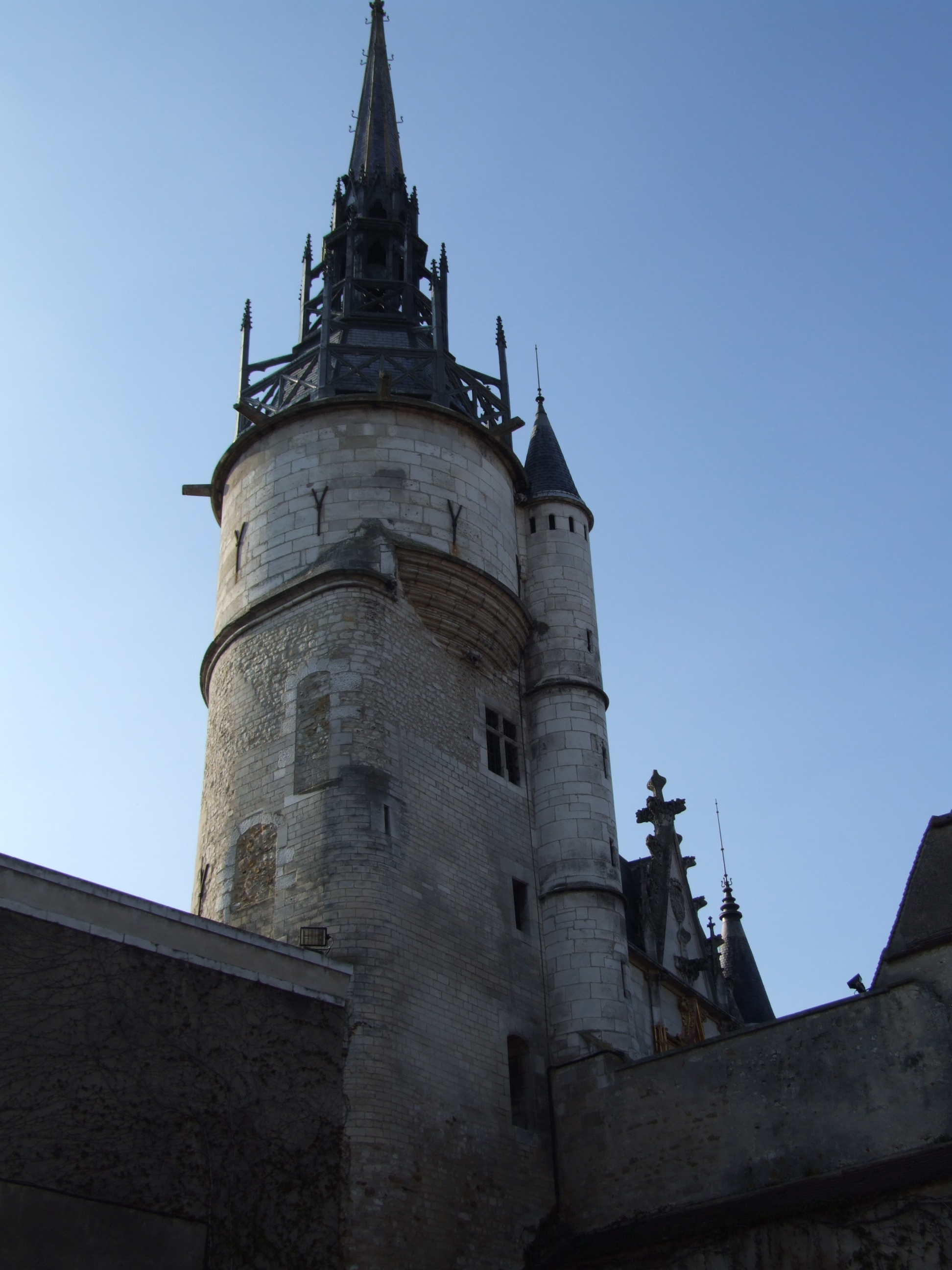 Clock tower of Auxerre, Auxerre, Burgundy, FRANCE